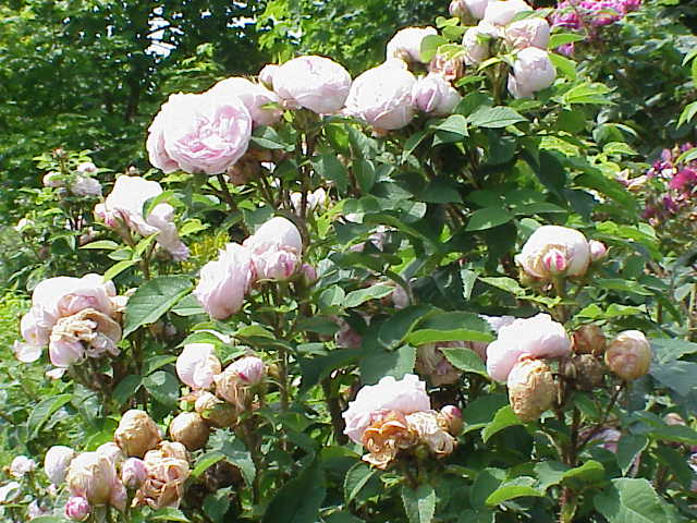 Species: Rosa sp. Family: Rosaceae Cultivar: ?ard Ory, Robert 1854 Image No. 14